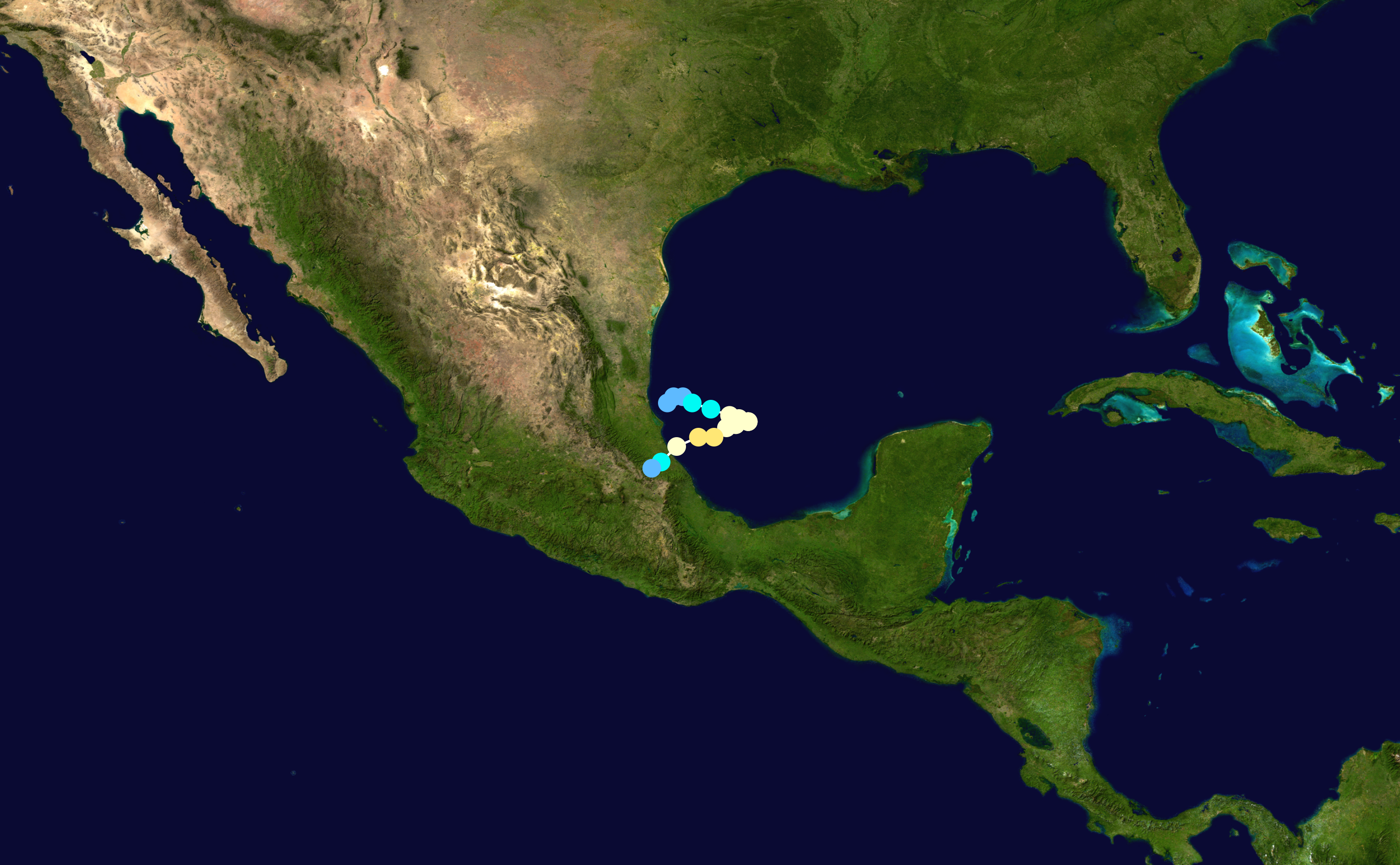 Track map of Hurricane Katia of the 2017 Atlantic hurricane season. The points show the location of the storm at 6-hour intervals. The colour represents the storm's maximum sustained wind speeds as classified in the Saffir–Simpson scale (see below), and the shape of the data points represent the nature of the storm, according to the legend below. Saffir–Simpson scale Tropical depression≤38 mph≤62 km/h Category 3111–129 mph178–208 km/h Tropical storm39–73 mph63–118 km/h Category 4130–156 mph209–251 km/h Category 174–95 mph119–153 km/h Category 5≥157 mph≥252 km/h Category 296–110 mph154–177 km/h Unknown Storm type Tropical cyclone Subtropical cyclone Extratropical cyclone / Remnant low / Tropical disturbance / Monsoon depression